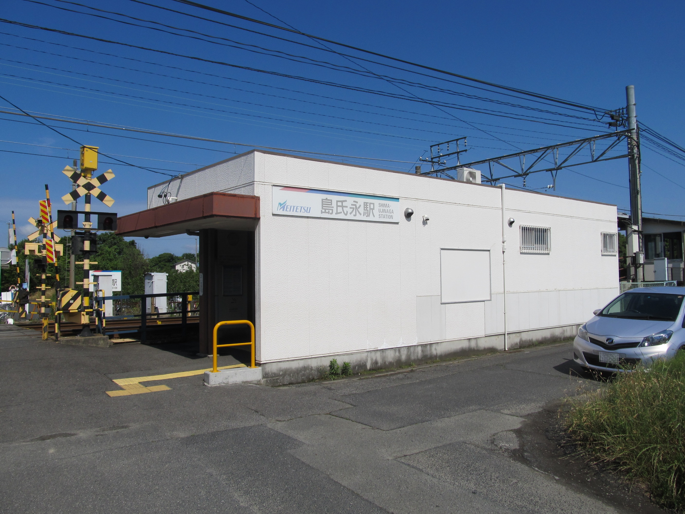 Nagoya Railroad Nagoya Main Line Shima-ujinaga Station Building (for Nagoya)